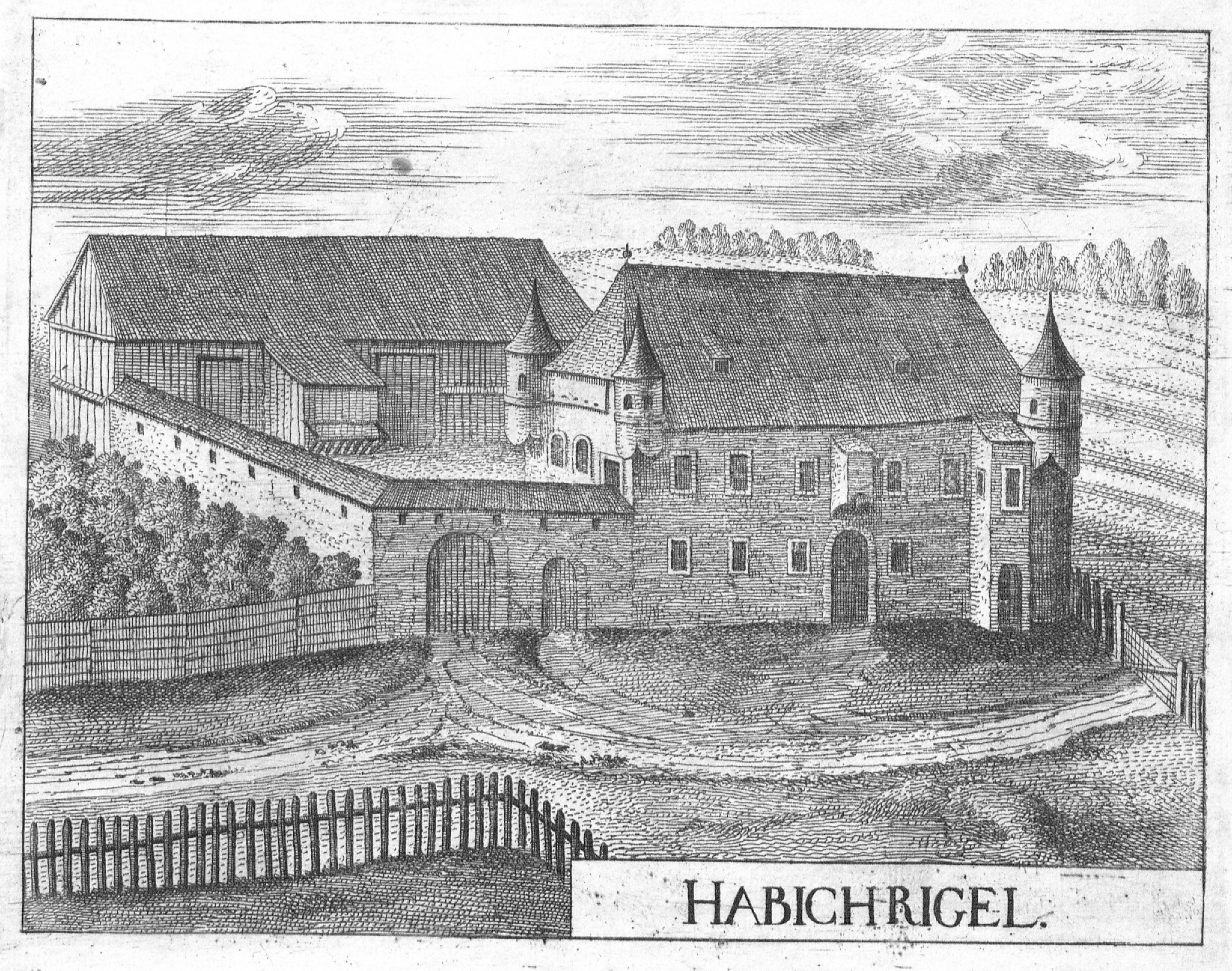 Engraving, view of Habichriegl castle, Upper Austria